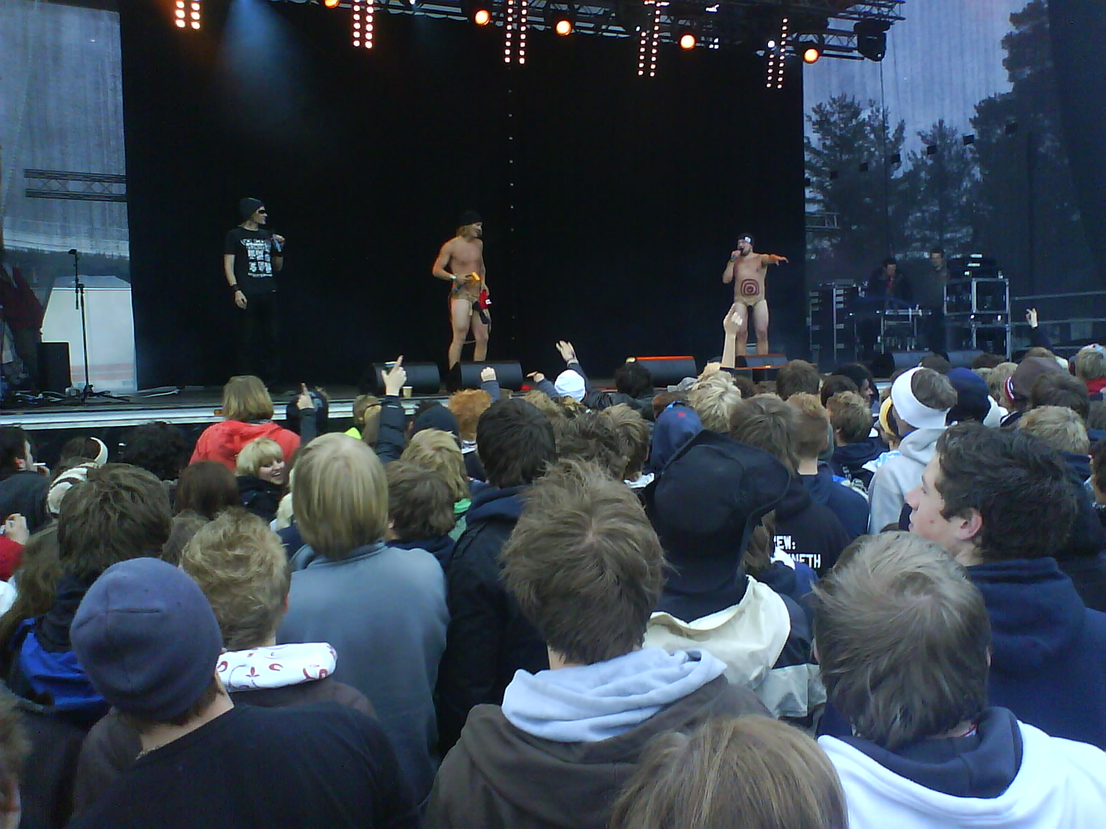 The Dudesons live at Lillehammer, Norway.